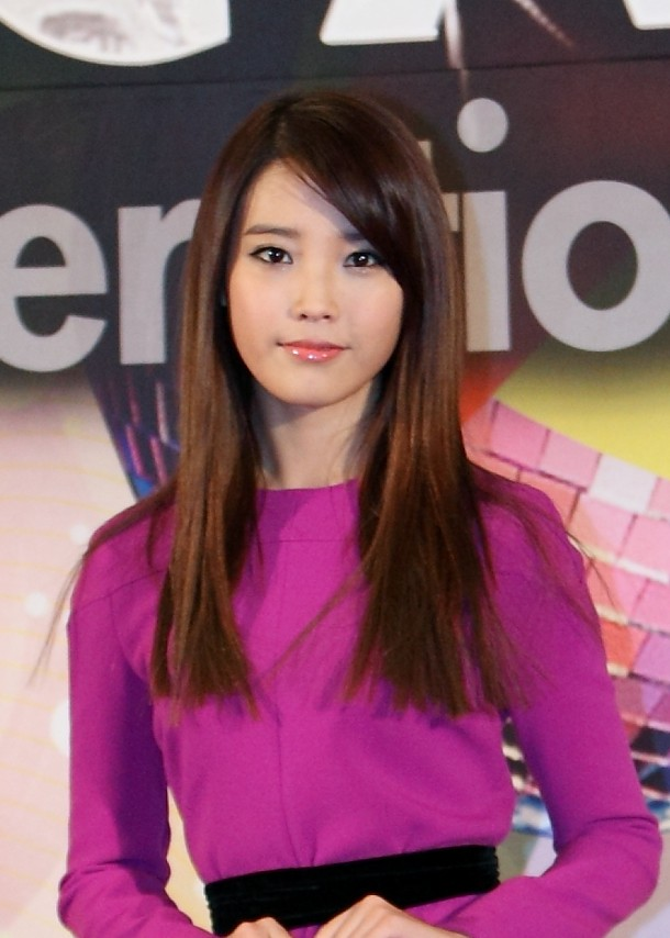 IU at the 2010 Melon Music Awards